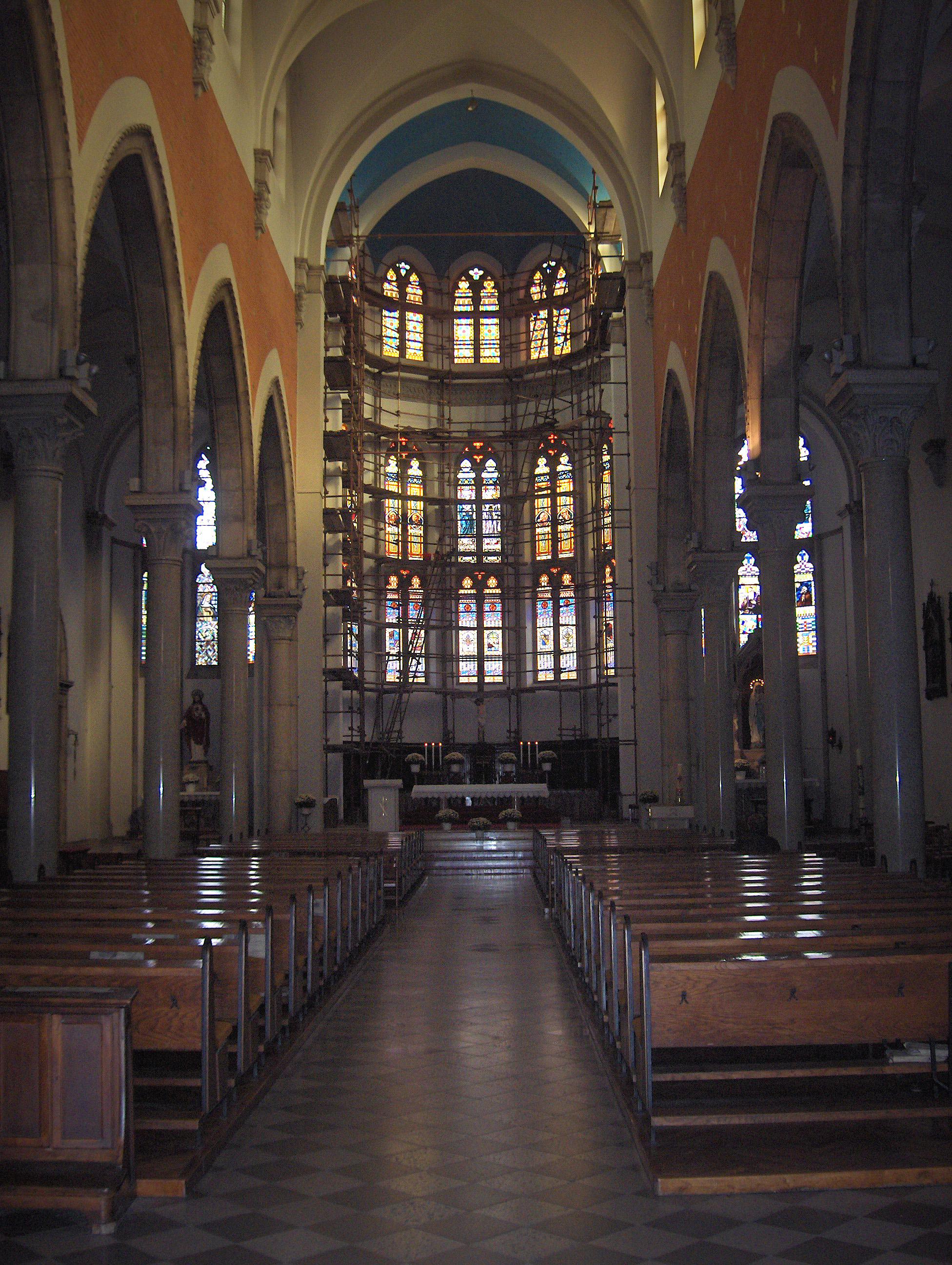 Central nave of the Capuchin church of Our Lady of Lourdes; Rijeka, Croatia